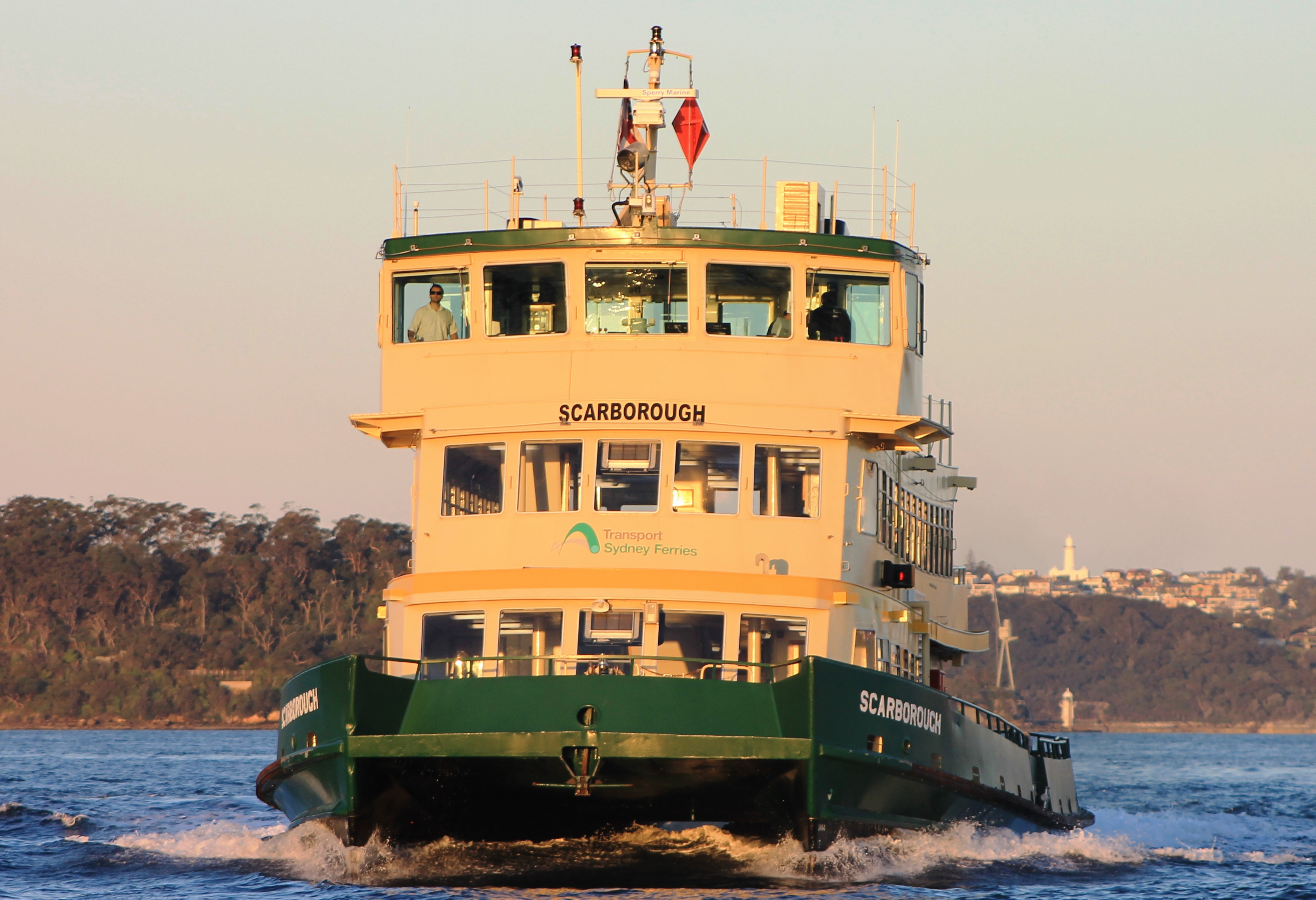 Sydney Ferry Scarborough on Sydney Harbour